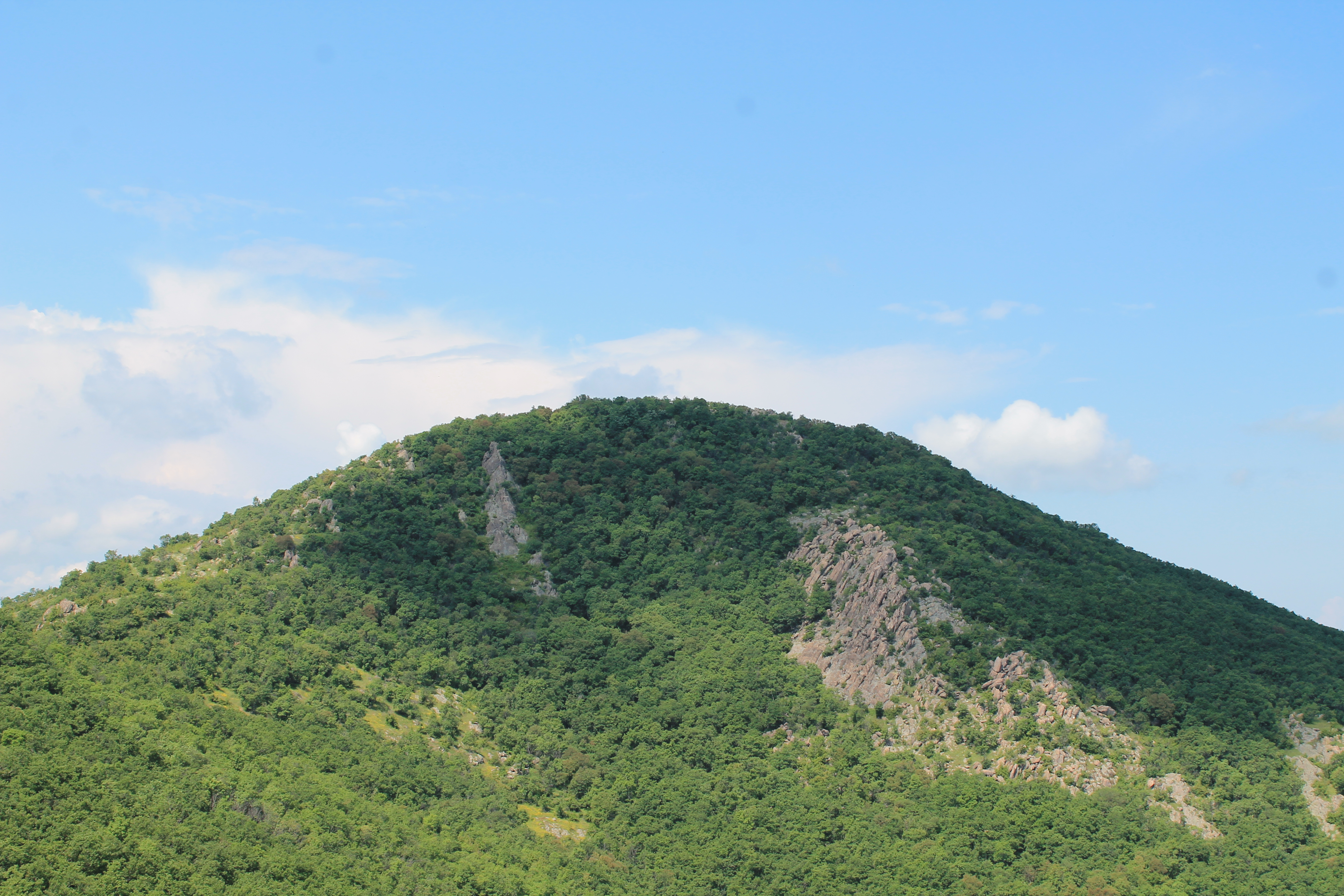 Golyamo_gradishte_Bryastovo_BG